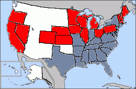 1884 elections USA results by state